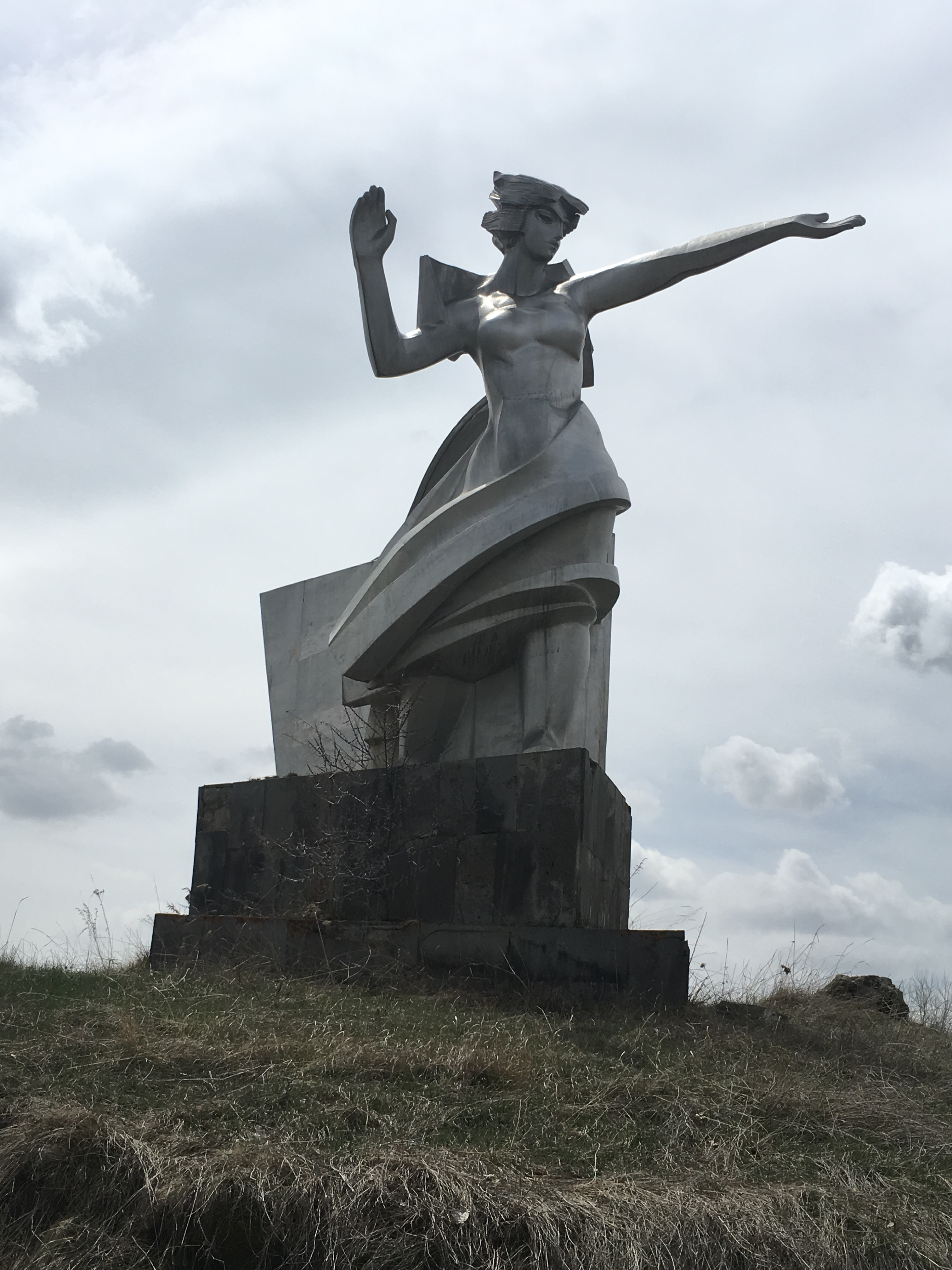 Dawn. 1963. Aluminum. 4,4 m.Installed on the highway Yerevan-Sevan